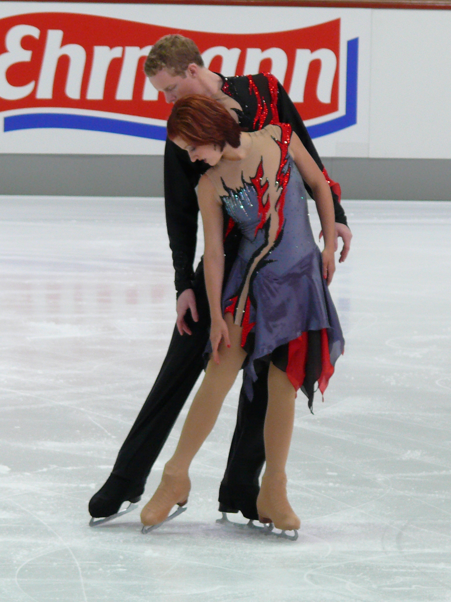 Emily Samuelson and Evan Bates (USA) at their free dance at the Nebelhorntrophy 2008 in Oberstdorf, Germany